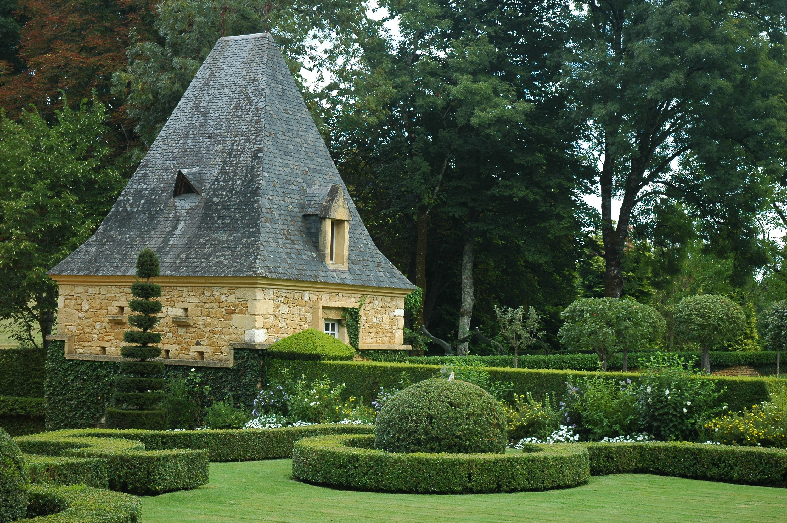 Gardens of Eyrignac Manor, in Dordogne (France)